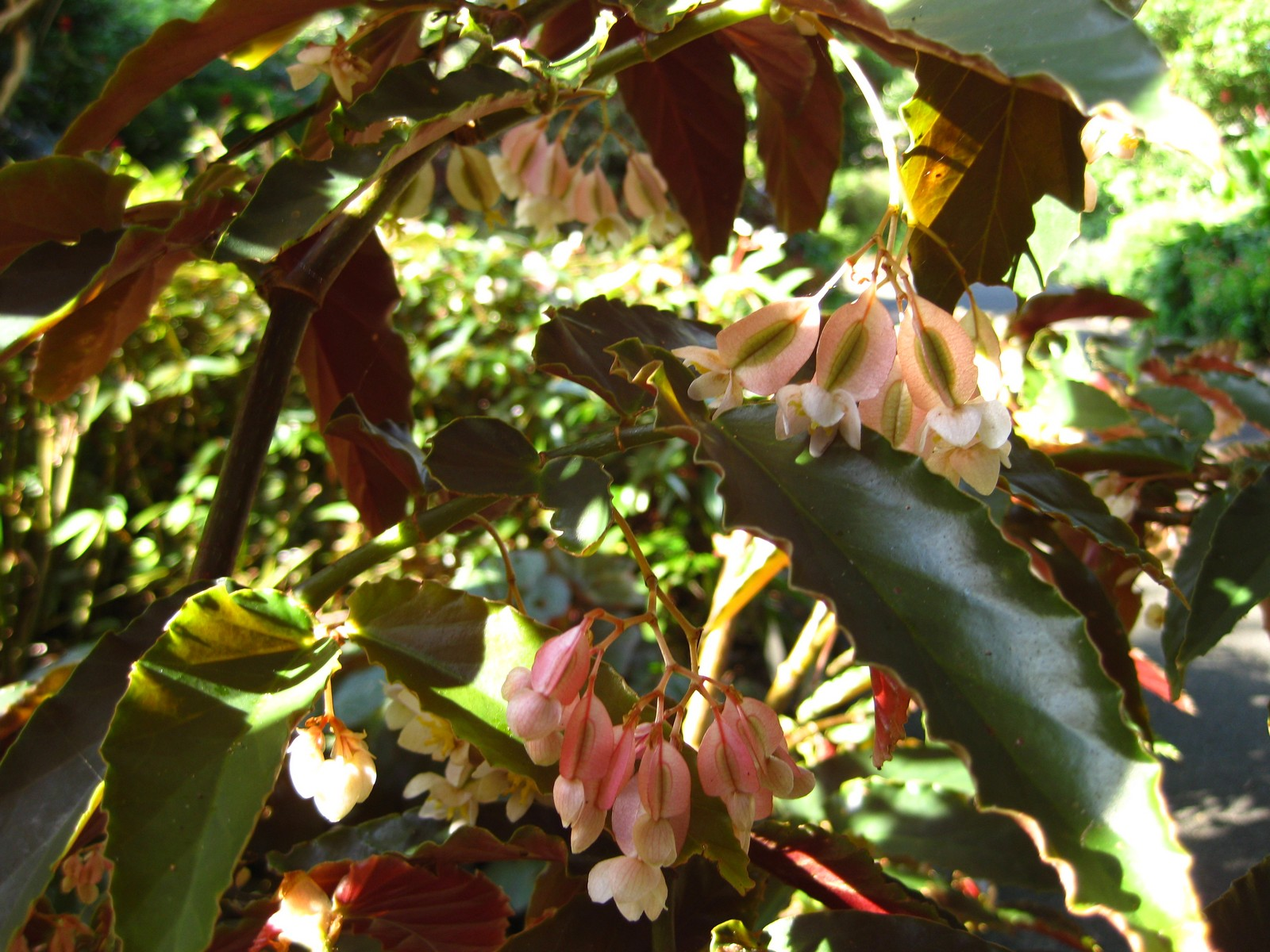 Photographed at the Royal Botanic Gardens Sydney (Australia) in December